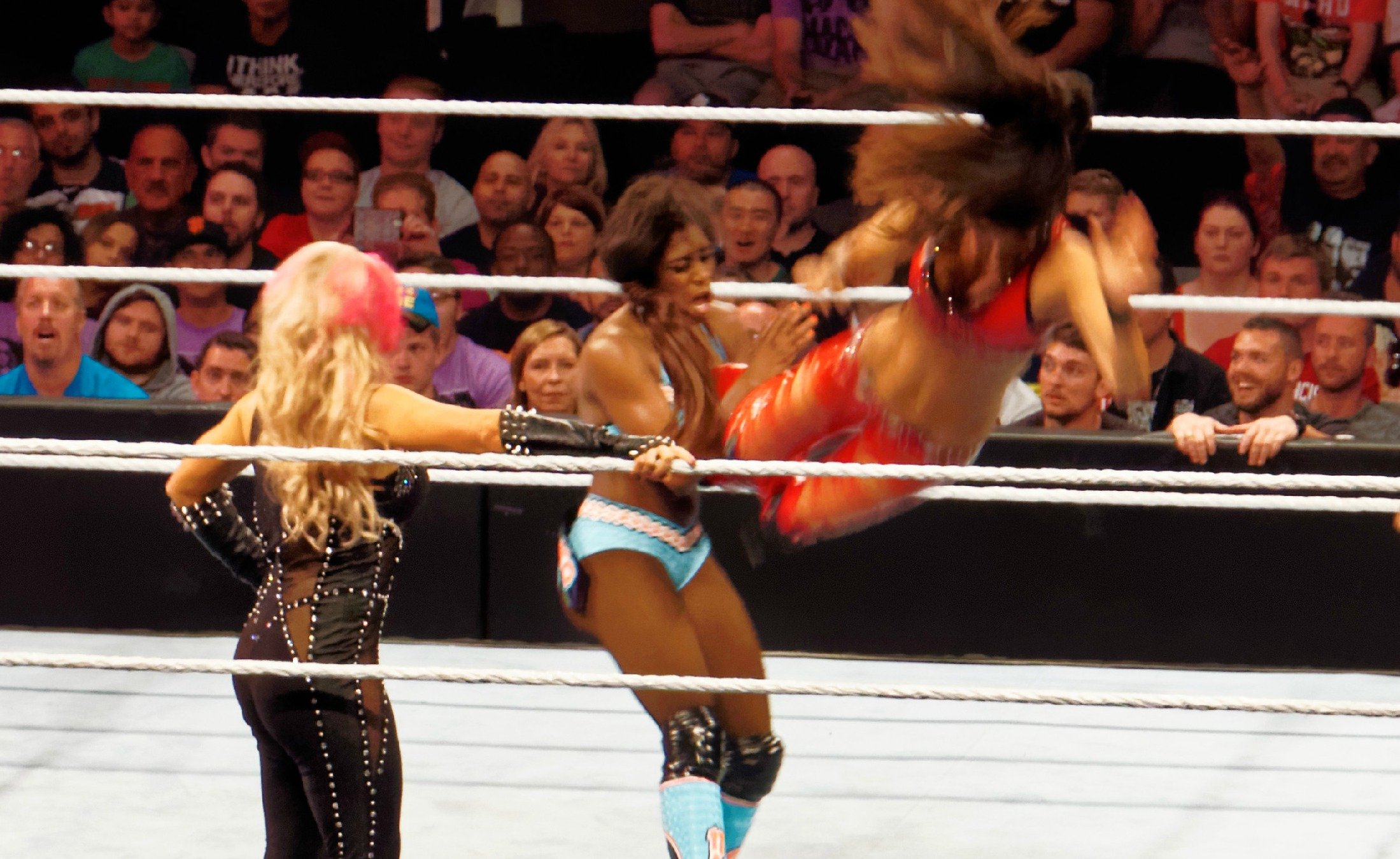 Brie Bella applying an Missile Dropkick on Naomi.